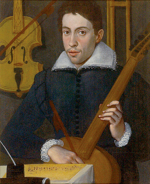 Portrait of a musician by a Cremonese painter. The sitter has traditionally, but incorrectly, been identified as Antonio Stradivari. Claudio Monteverdi (1567-1643) and Gasparo da Salò (1540-1609) have been suggested. He holds a Brescian viola da gamba, and there is a violin/viola with a bow in the background.